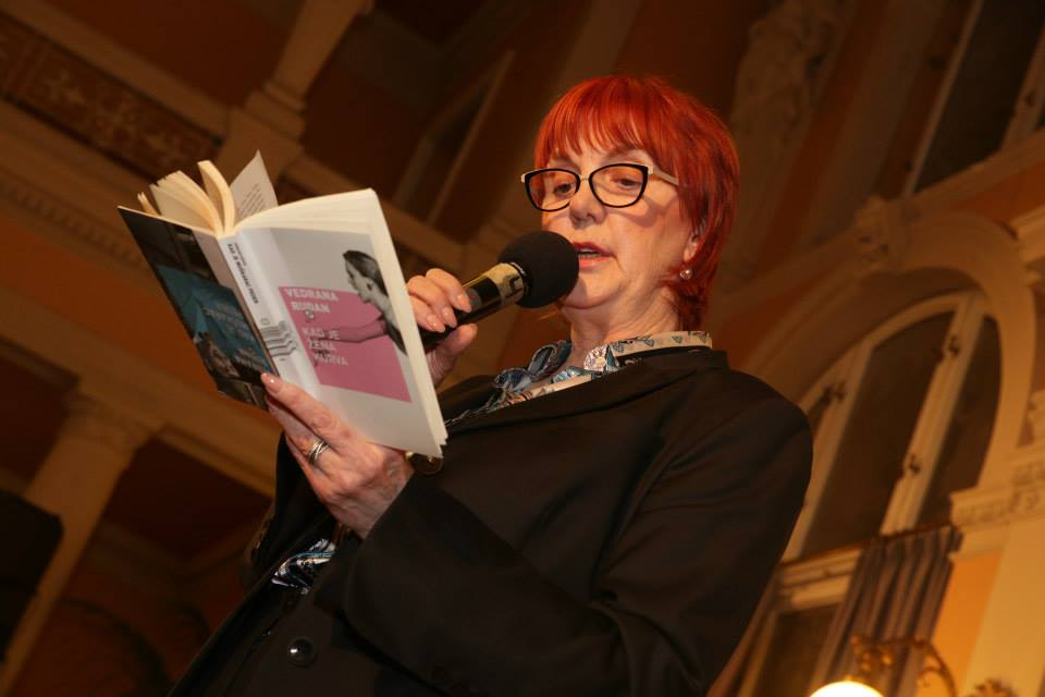 Vedrana Rudan reading a book to her audience in Vienna, Austria.